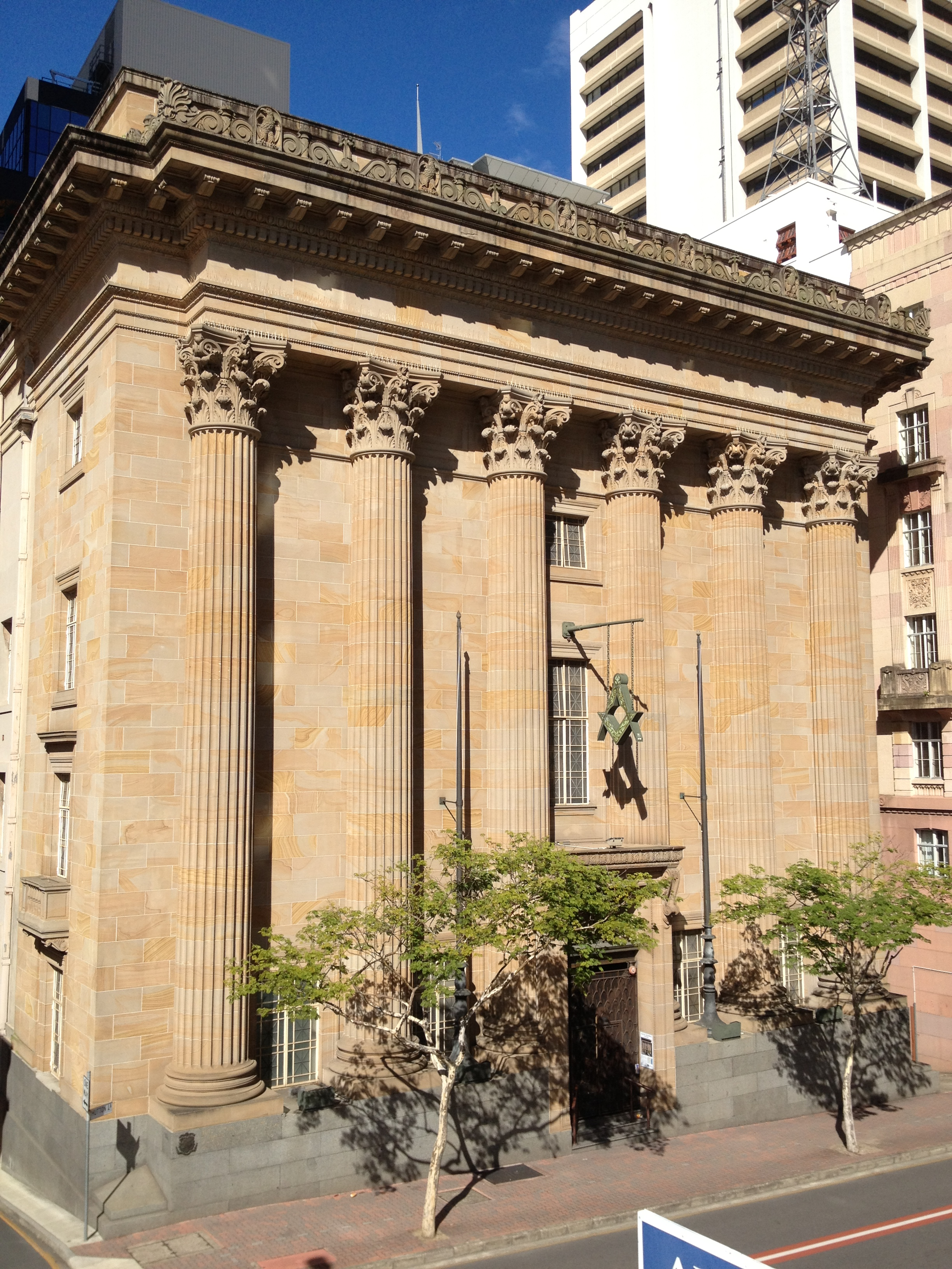 Masonic Memorial Temple, Brisbane